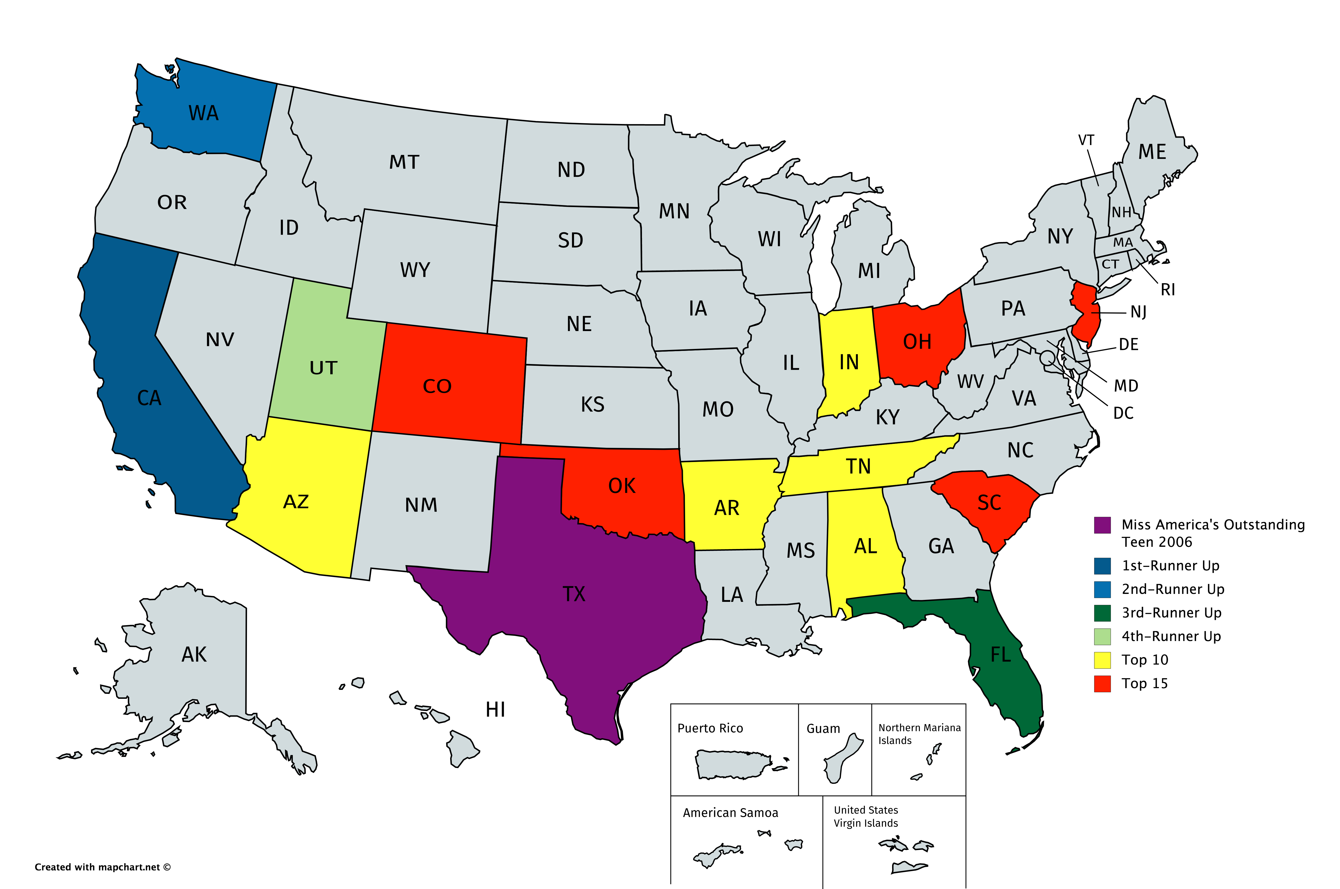 Placements of Miss America's Outstanding Teen 2006 on a map